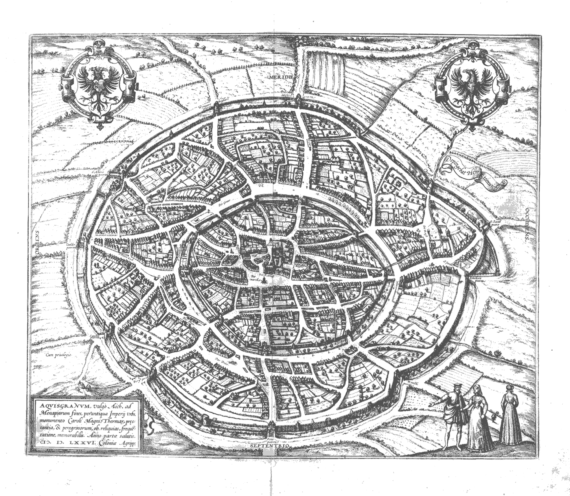 perspectivic map of the city of Aachen seen from the north